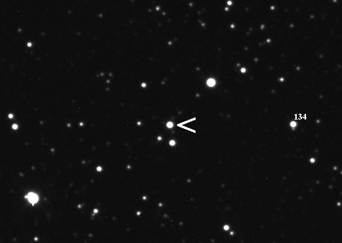 2 minute exposure of dwarf nova HT Cas as seen with a 24" telescope on 2010 November 12. HT Cas was seen to outburst on 2010 November 2.43 at magnitude 12.4-12.9. The star ~30 arcseconds south is magnitude 13.9. HT Cas is about magnitude 13.4 in this image. The last well-observed outburst of this star was on 2008 January 10.